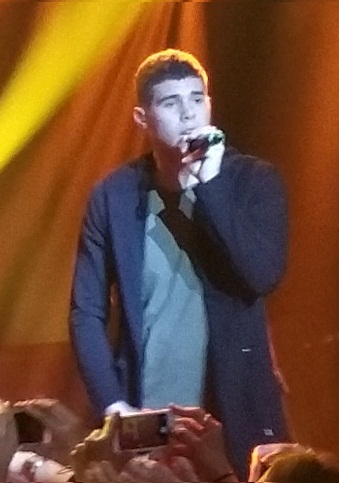 Zabdiel de Jesus (Puerto Rico), member of CNCO boy band (First winners of Univision music reality show La Banda), debut solo concert Jan. 30, 2016, at the Fillmore Miami Beach, Jackie Gleason Theater.